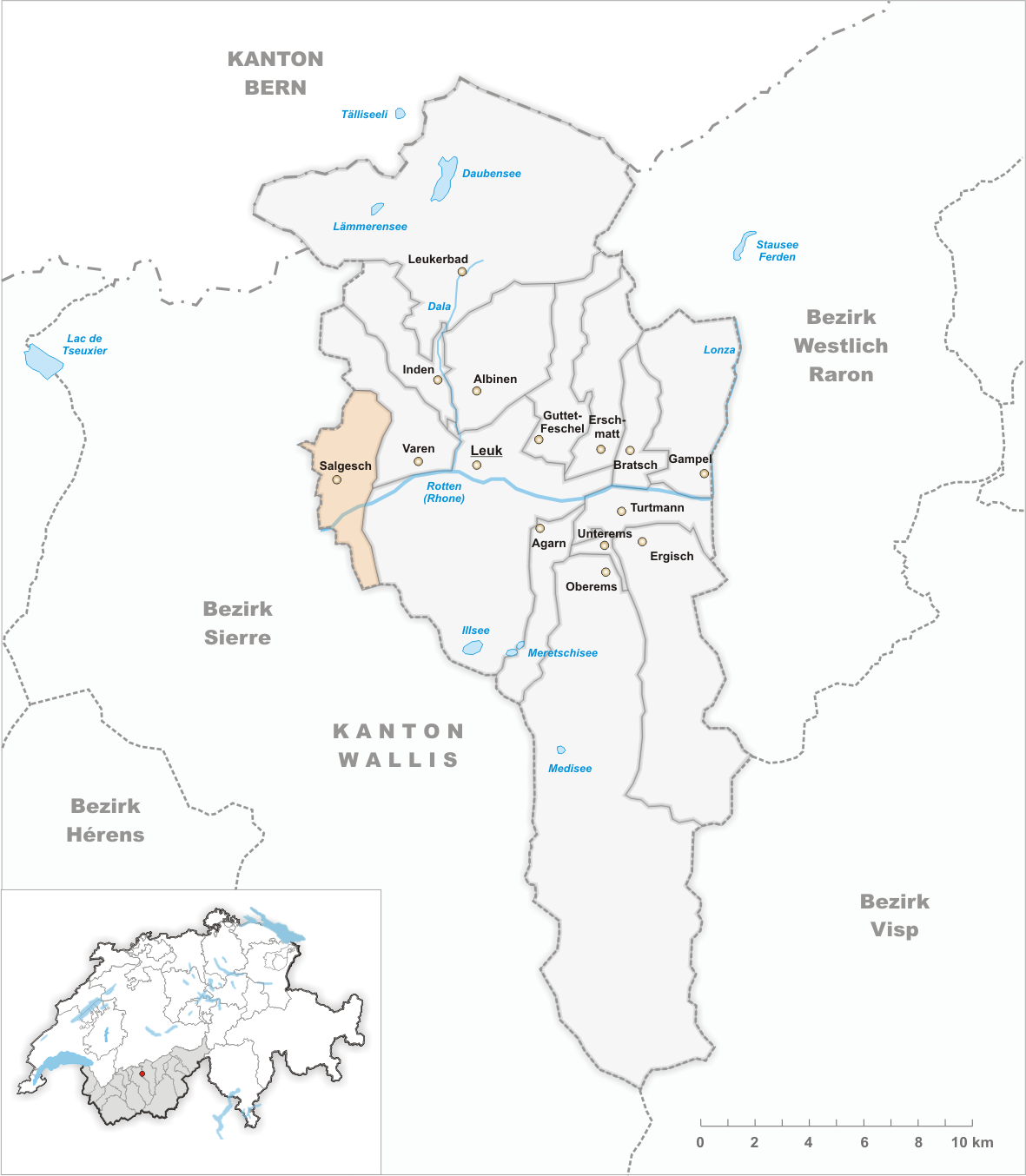 Municipality Salgesch